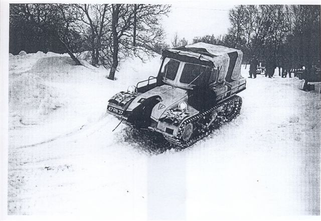 Private photo of a Royal Marines Snow Trac on patrol in Norway in 1975.